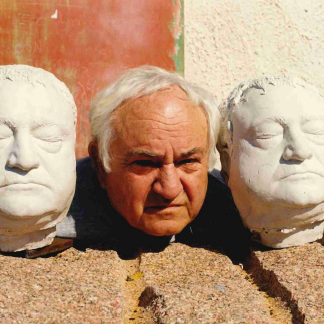 Igael Tumarkin, 1999. At his studio in Burgata, Israel.